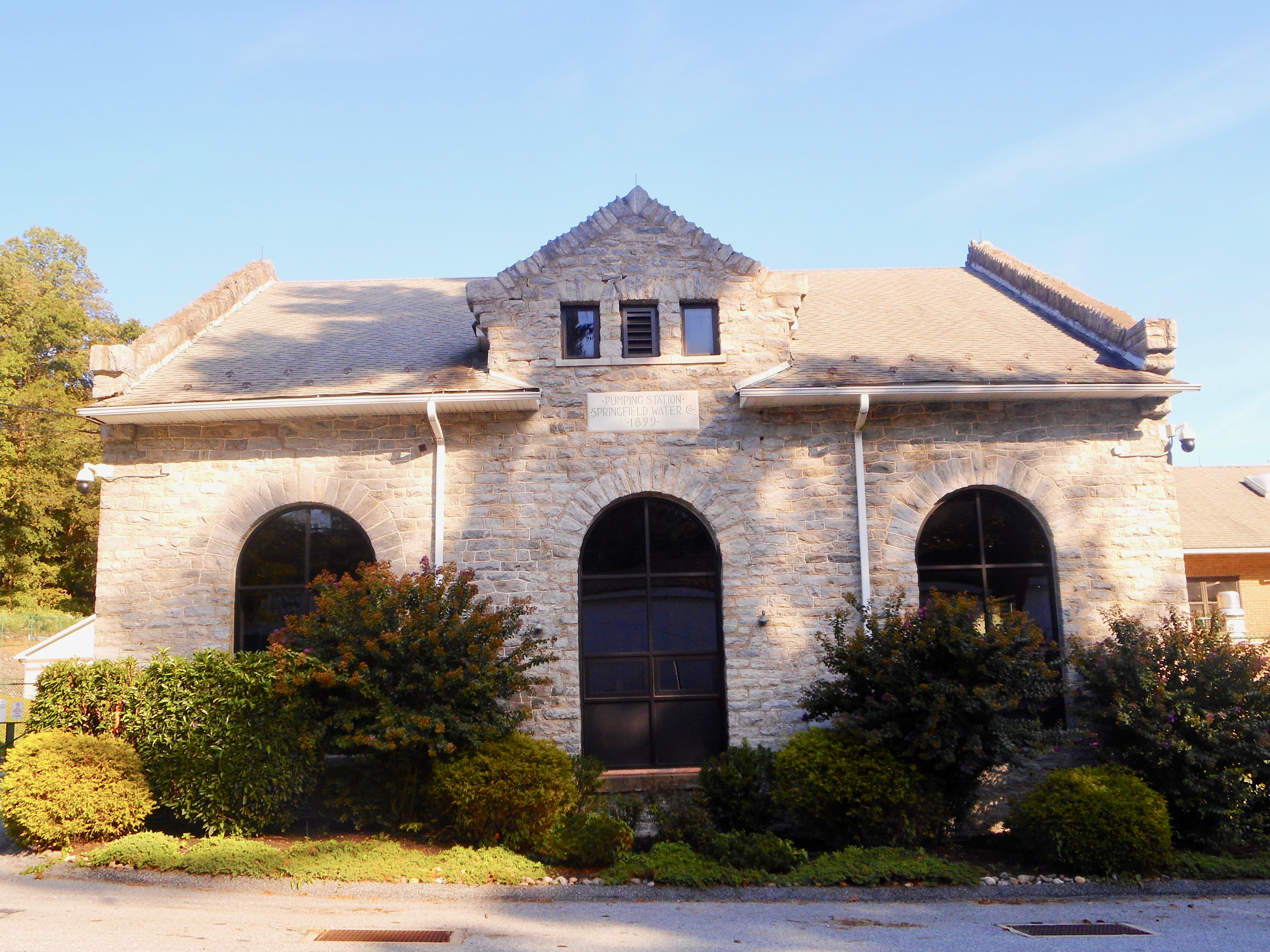 Springfield Water Company pumping station, built 1899, in Springfield Township, Delaware County, Pennsylvania on Beatty Road on Crum Creek.